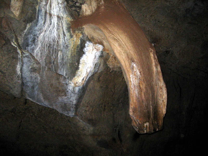 Picture taken by contributor (Claidheamhmor) at the Sudwala Caves on 2006-02-11, with a Canon Powershot A400 digital camera.